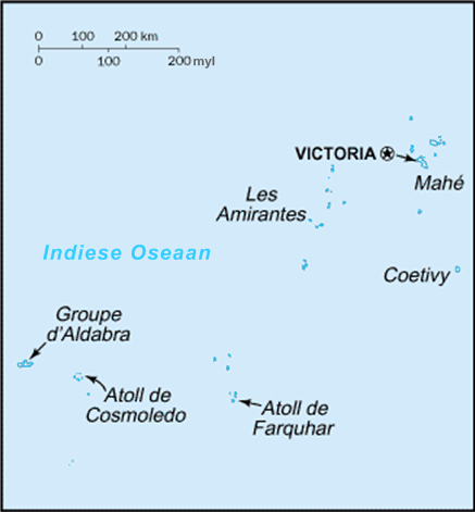 An Afrikaans map of the Seychelles.